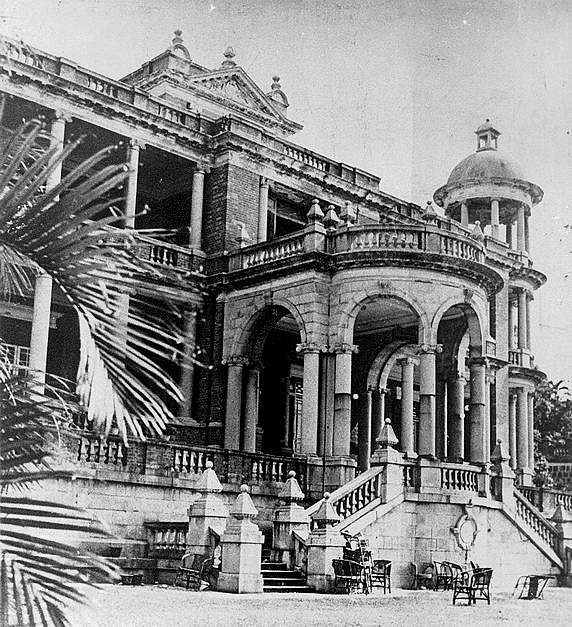 41A Conduit Road, Hong Kong, former residence of Mr. MOK Kon-sang, M.B.E., J.P. (1882 - 1958). It had been used by Foreign Correspondents Club before demolition in late 1960s.